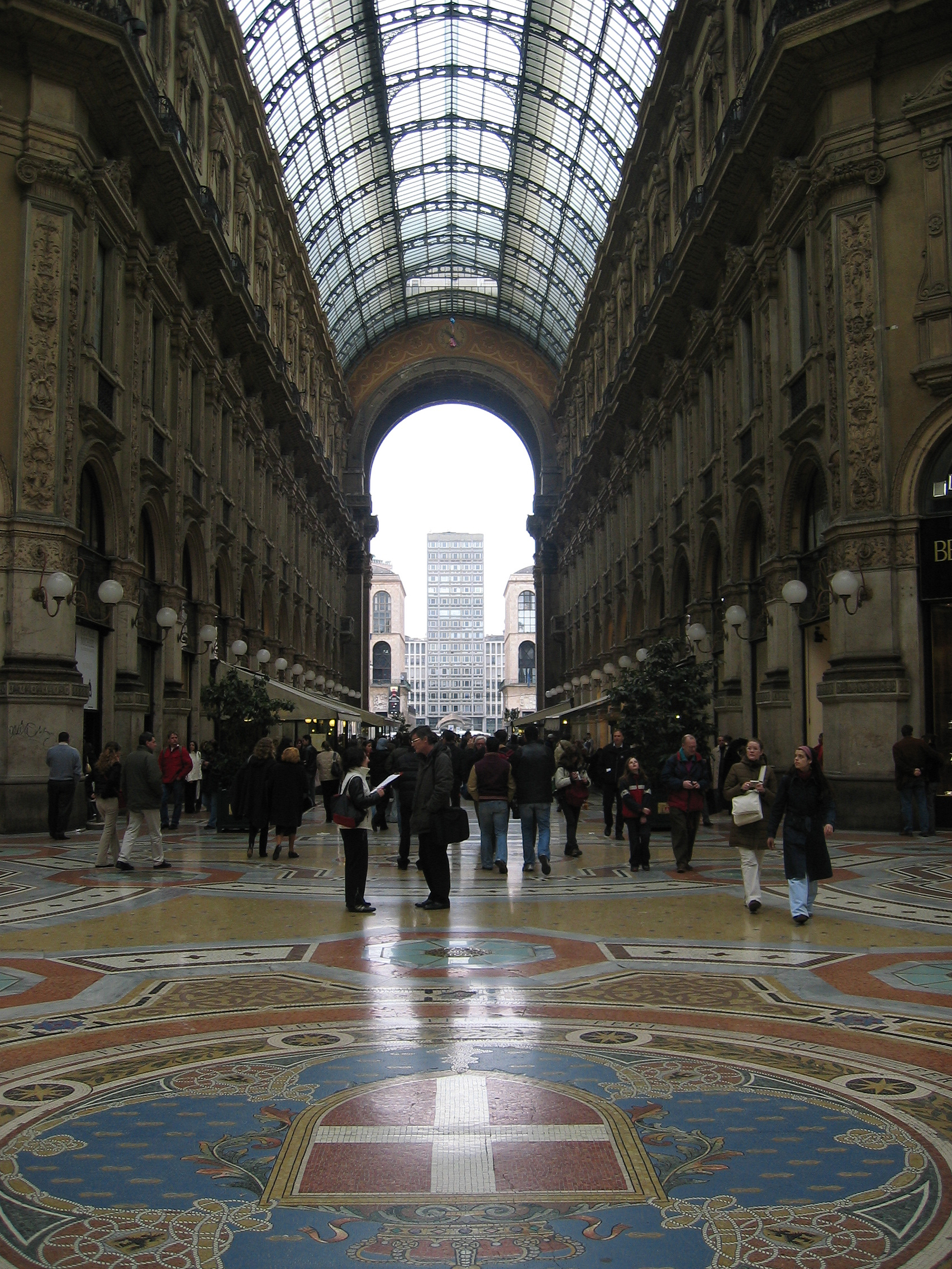 Coats of arms of the House of Savoy on the floor of Gallery Vittorio Emanuele II in Milan, Italy.